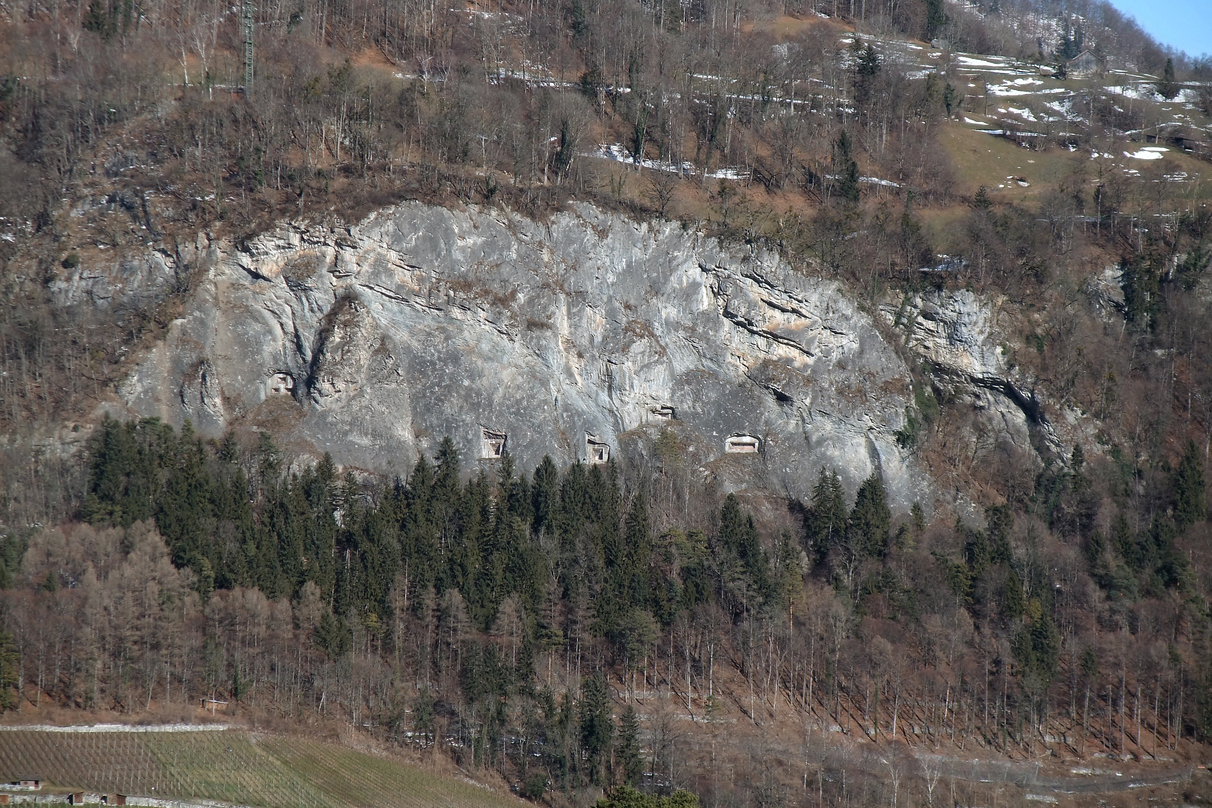 This smaller fortress, also called Passatiwand, dates like the most other fortifications around Sargans from the period of World War II. It was designed as a regimental fort for 130 soldiers and the command post of the Northern Front. The fort was decommissioned and is privately owned. It is the same owner as of Fort Furggels. The entrance is located on the left side of the crag, 100 meters above the valley floor. Sargans, Switzerland, Jan 23, 2013 (The geotags point to the entrance of the fort).